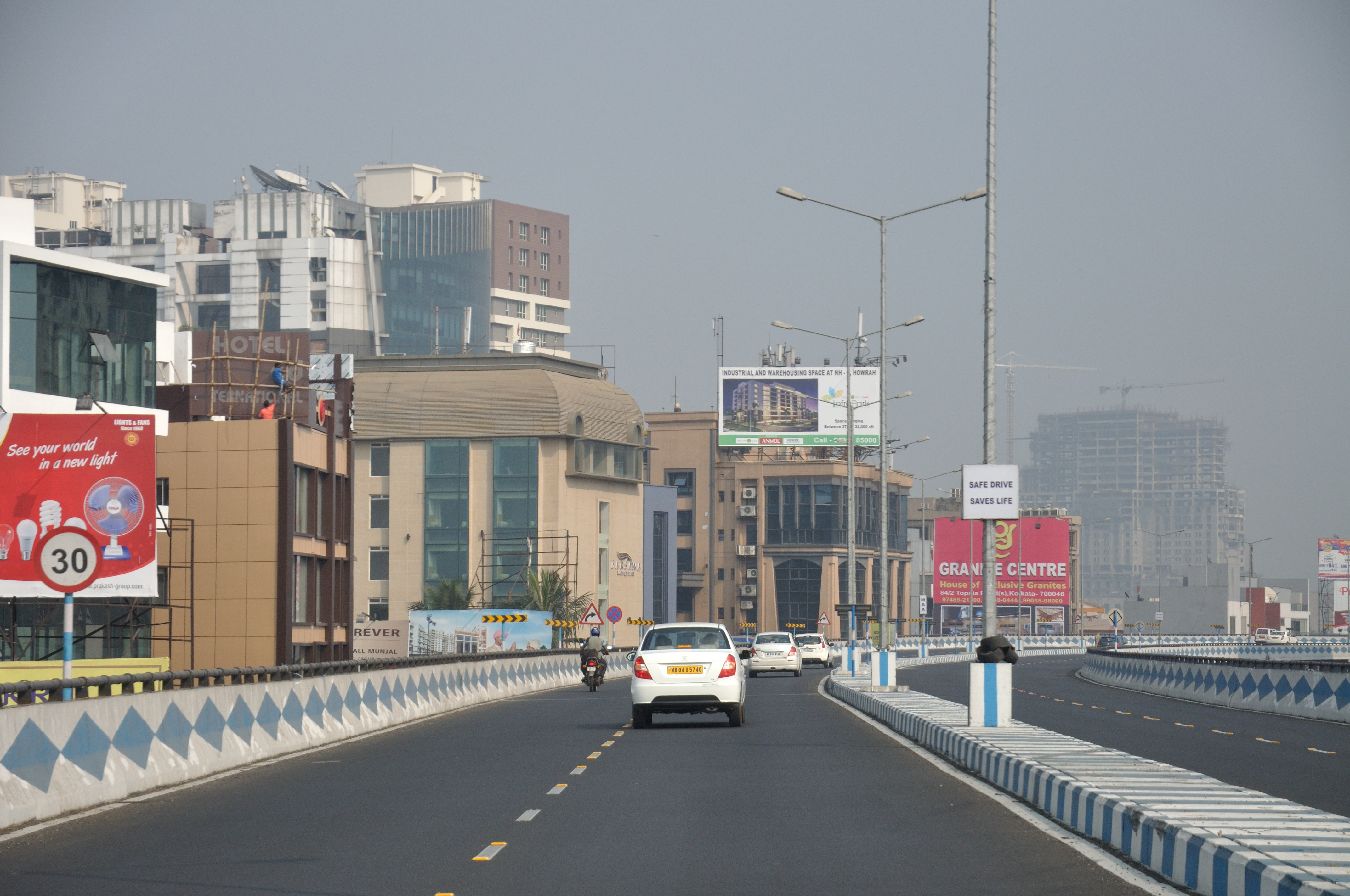 Photographed in Kolkata.